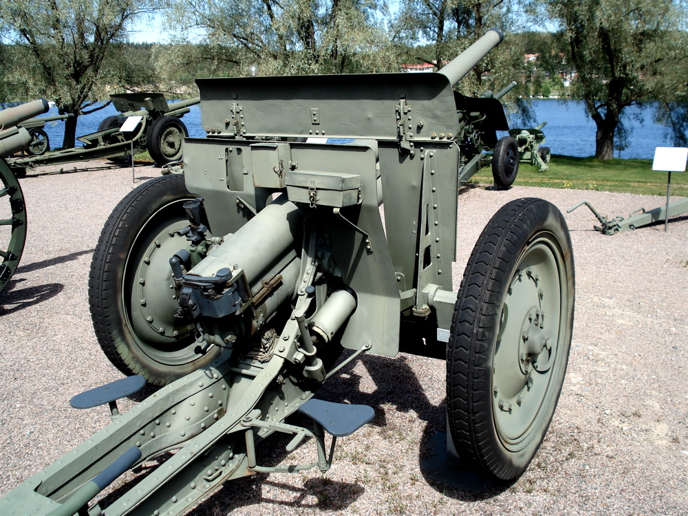 Russian 76.2 mm gun Model 1902/30 L40, displayed in Hämeenlinna Artillery Museum. Photo taken on June 18, 2006. Source: Photo by me, User:Balcer.